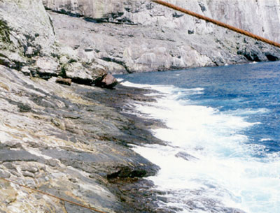 Cliffs on the eastern shore of Malpelo Island, Colombia.